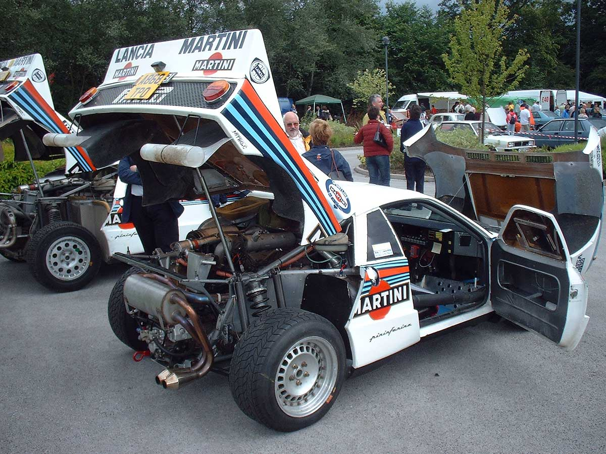 An ex-Markku Alén and another Lancia Rally 037 at the Lancia Motor Club AGM 2004.